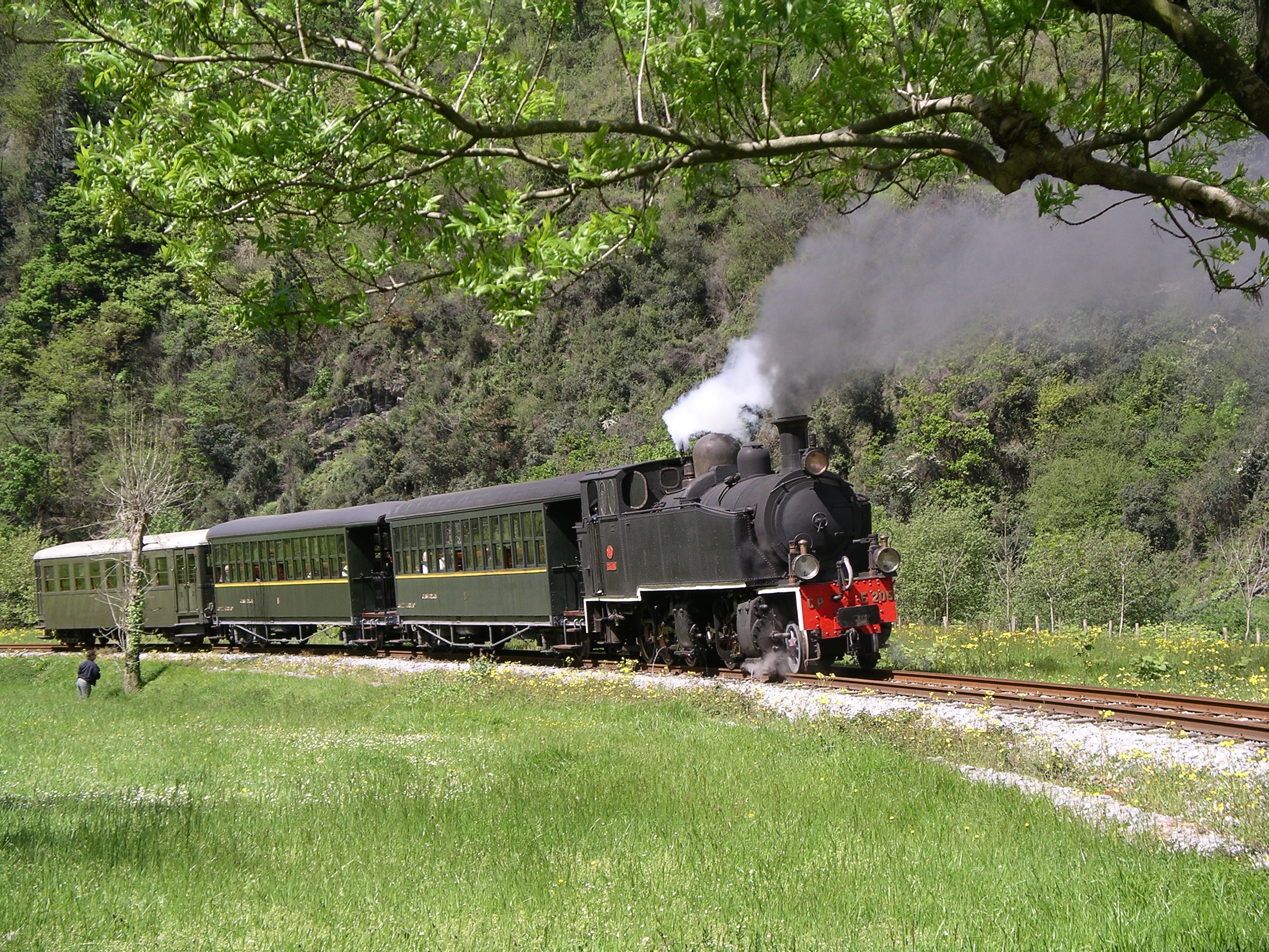 Steam train from Azpeitia Railway Museum on the line to Lasao in the Basque Country, Spain - with Steam engine "Portugal"